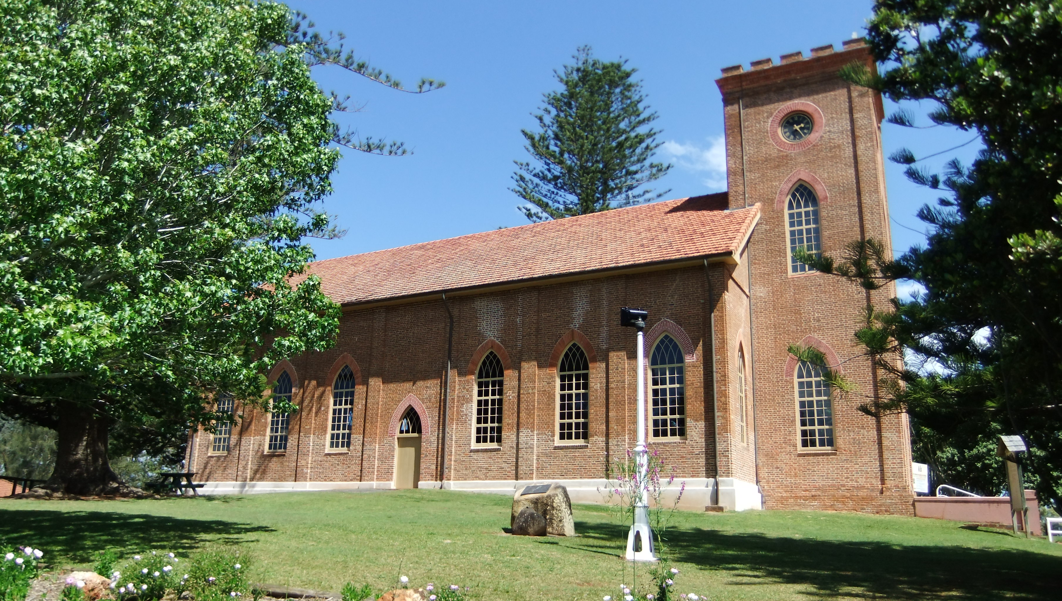 The St. Thomas' Church - Taken on the Tuesday, 27th October 2010 at 2:20pm.